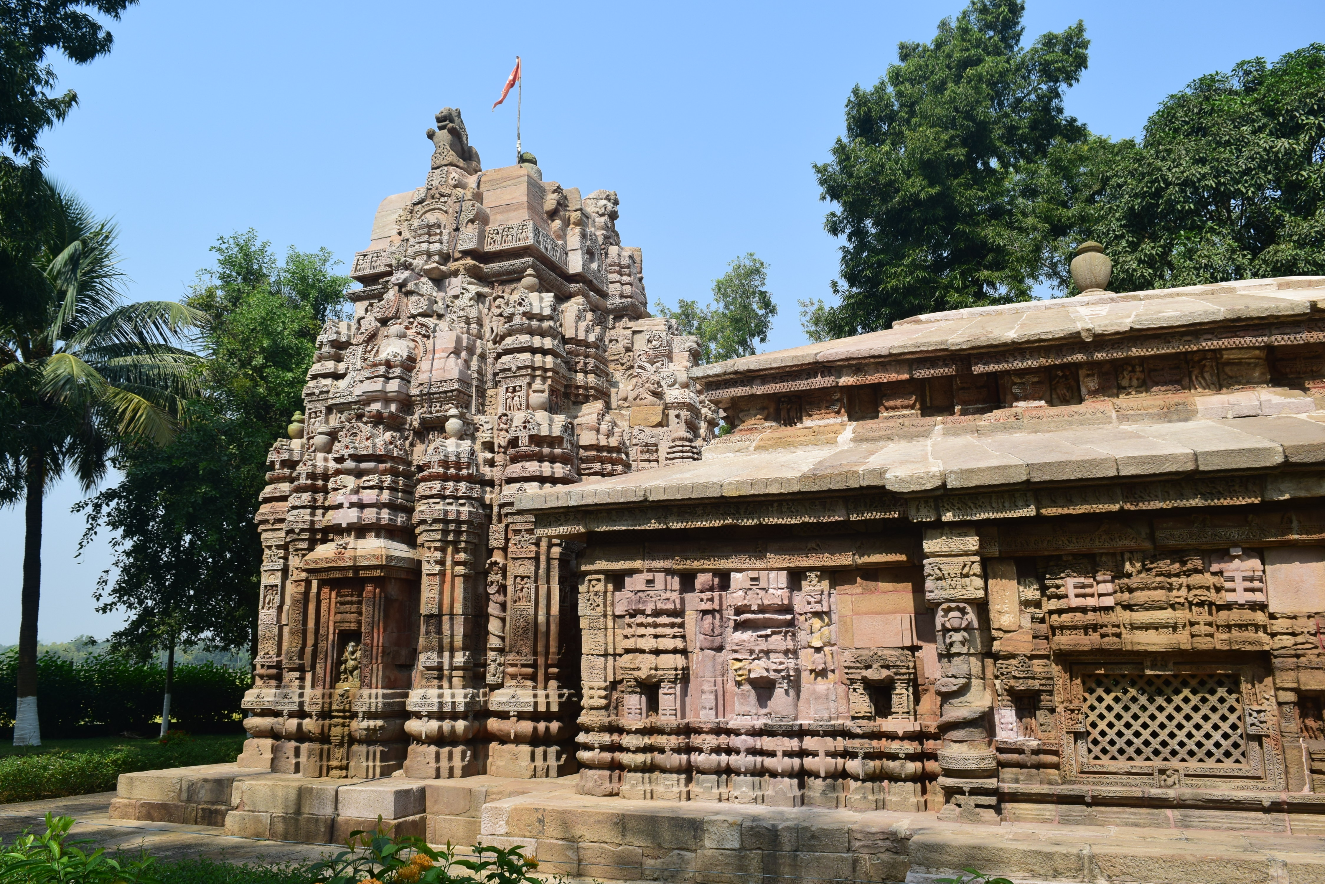 Varahi Temple is an ancient 9th century built temple situated on the eastern coast of Orissa in Puri district.